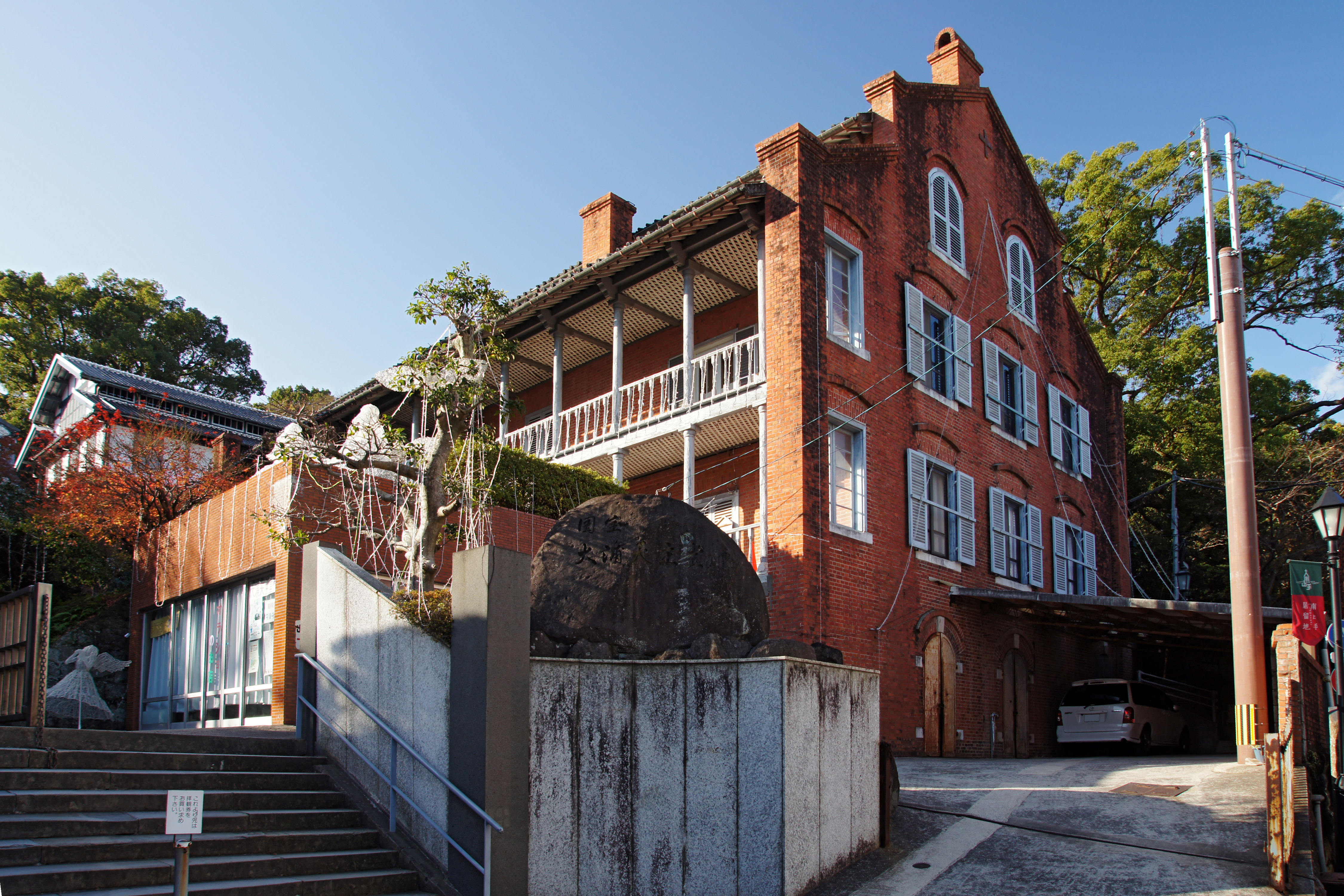 Former the archbishop hall of the Roman Catholic Archdiocese of Nagasaki in Nagasaki, Nagasaki prefecture, Japan